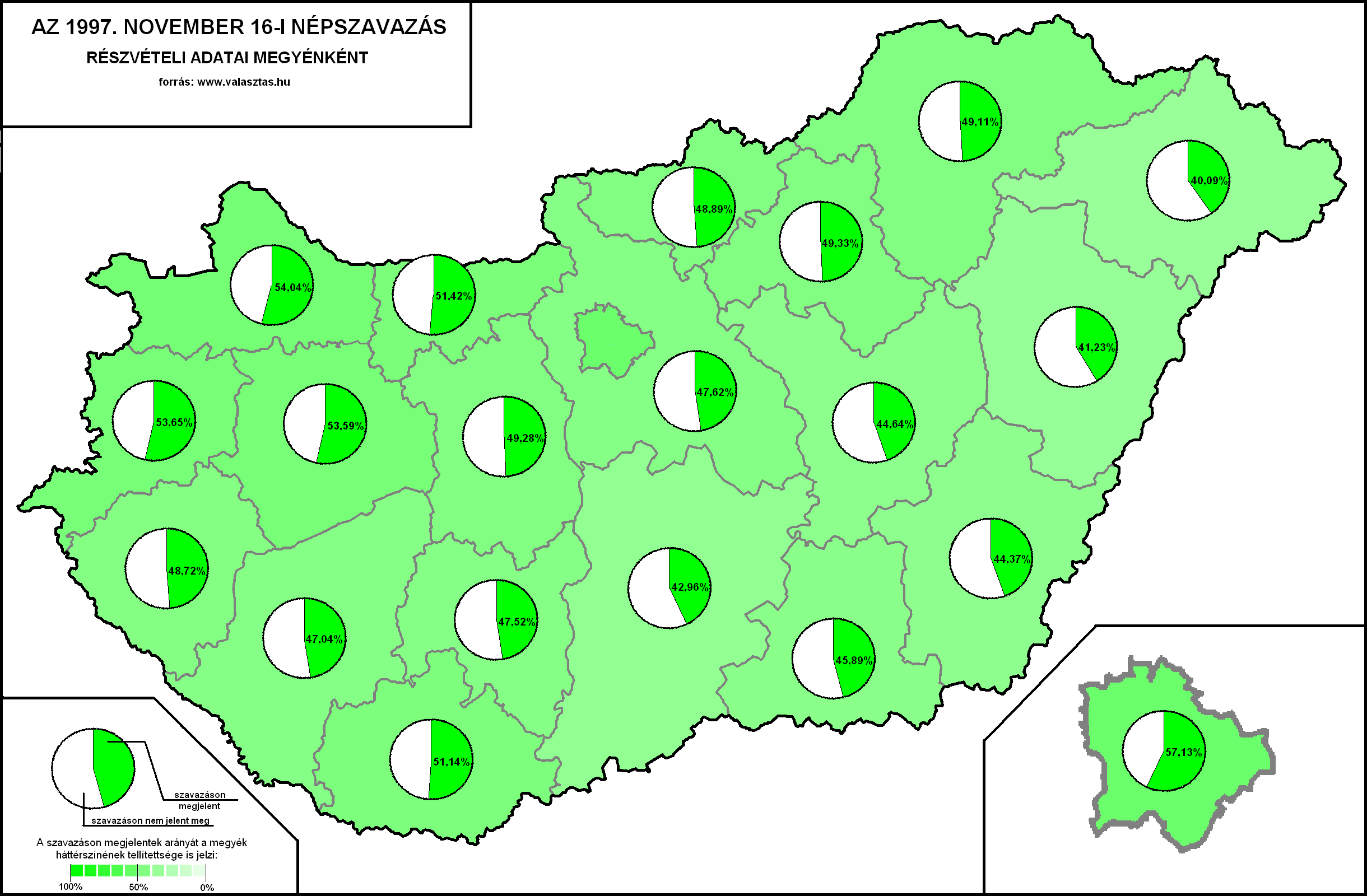 1997 Hungarian referendum, attendance by county